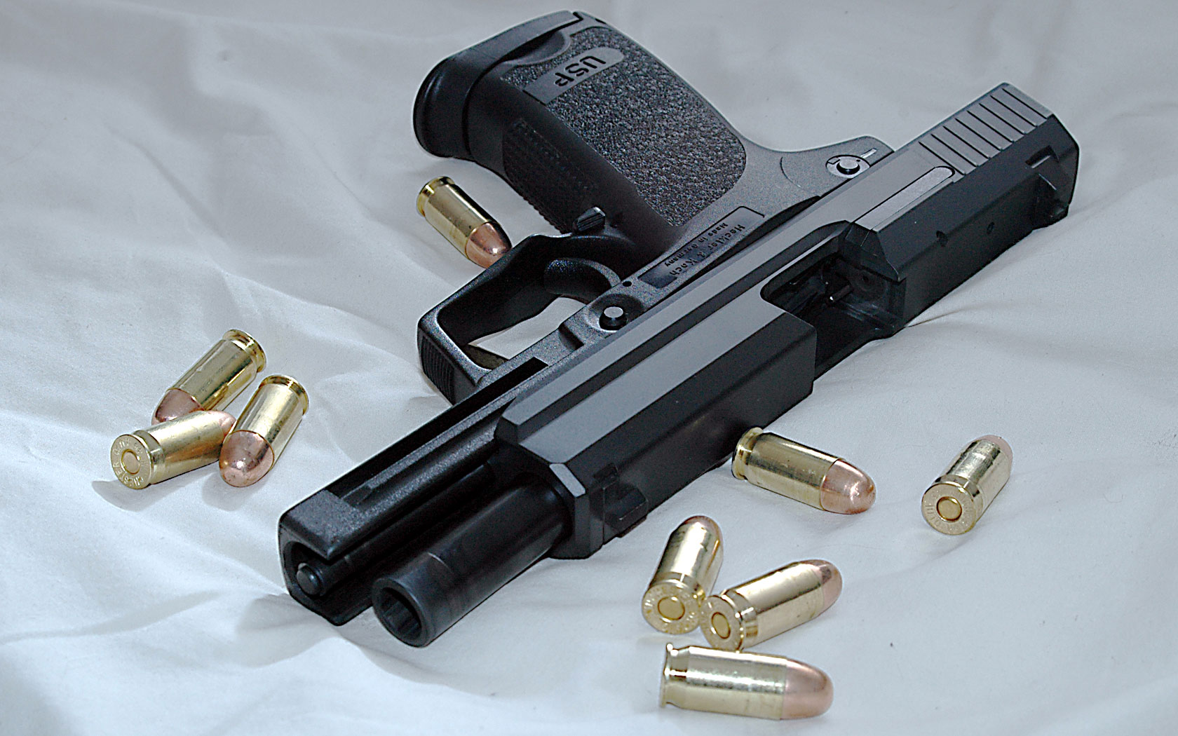 HK USP in .45 ACP. The barrel has octagonal rifling to help increase accuracy with the larger, heavier bullet. The gun also comes in .40 S&W, 357SIG, and 9mm Parabellum. Photo was taken with a Nikon D70 camera,ond used Photoshop to save it for web use at 60% quality. The file size is 298280 byte